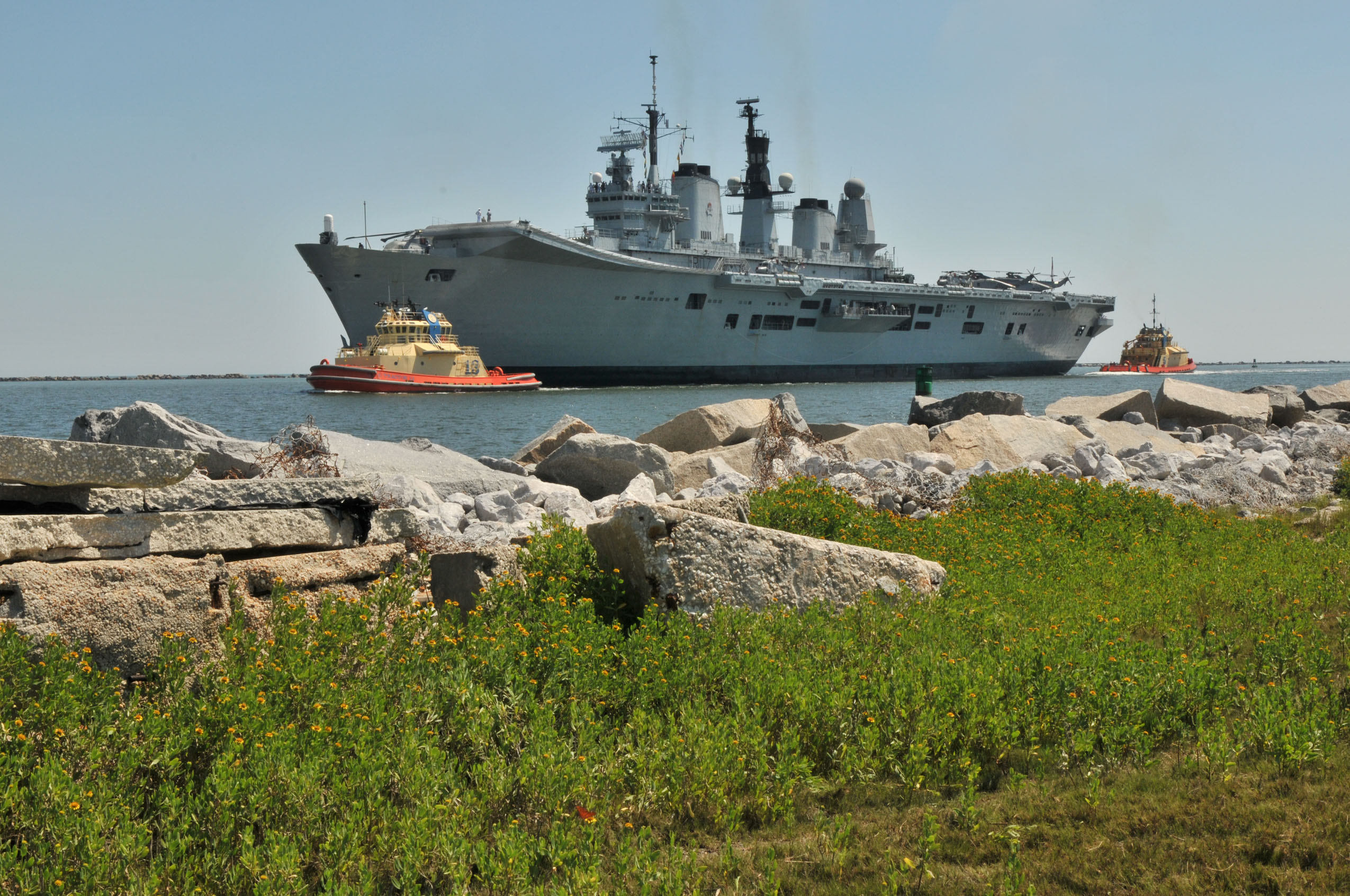 MAYPORT, Fla. (May 28, 2010) The British Royal Navy light aircraft carrier HMS Ark Royal (R07) approaches Naval Station Mayport for a scheduled port call. Ark Royal is in port to disembark U.S. Marines and equipment, and to prepare for Auriga, a Royal Navy deployment off the Eastern Seaboard of North America and in the western Atlantic. (U.S. Navy photo by Mass Communication Specialist 1st Class Leah Stiles/Released)